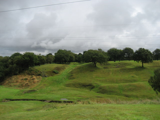 Roman Fort and the Antonine Wall The ditch, clearly seen in a lighter shade of green, marks the course of the Antonine Wall - the most north westerly frontier achieved by the Roman Empire. I believe it was only in use for little over 20 years. To the right are ridges and mounds that indicate the position of the Roman Fort at Rough Castle - the whole scene reminds me of a golf course.